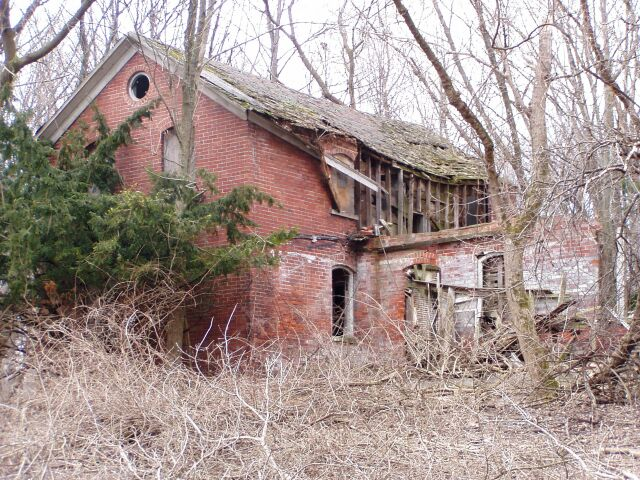 Swedish Community of Porter, Indiana (John Borg house)